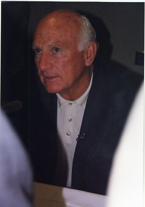 An image of baseball Hall of Famer Harmon Killebrew.